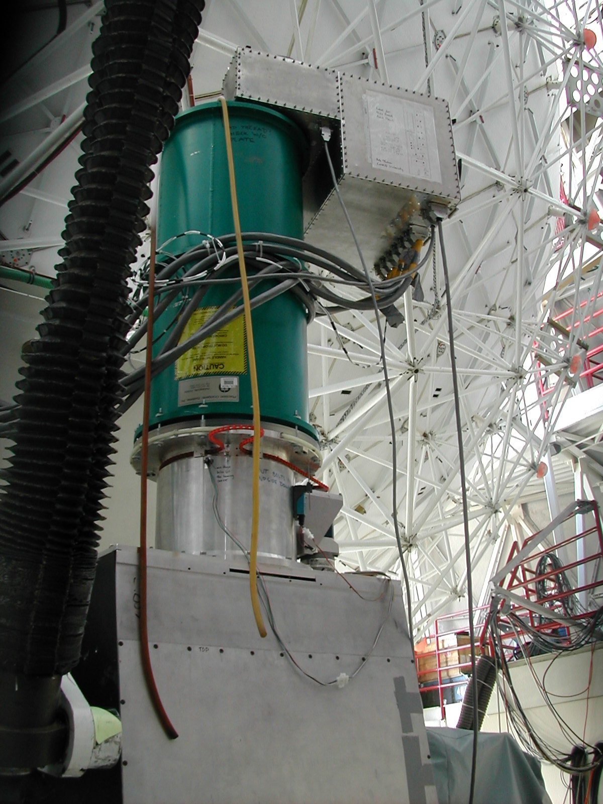 This is an image of the Bolocam instrument used in the Bolocam Galactic Plane Survey. Here, it is shown setup on the Caltech Submillimeter Observatory.